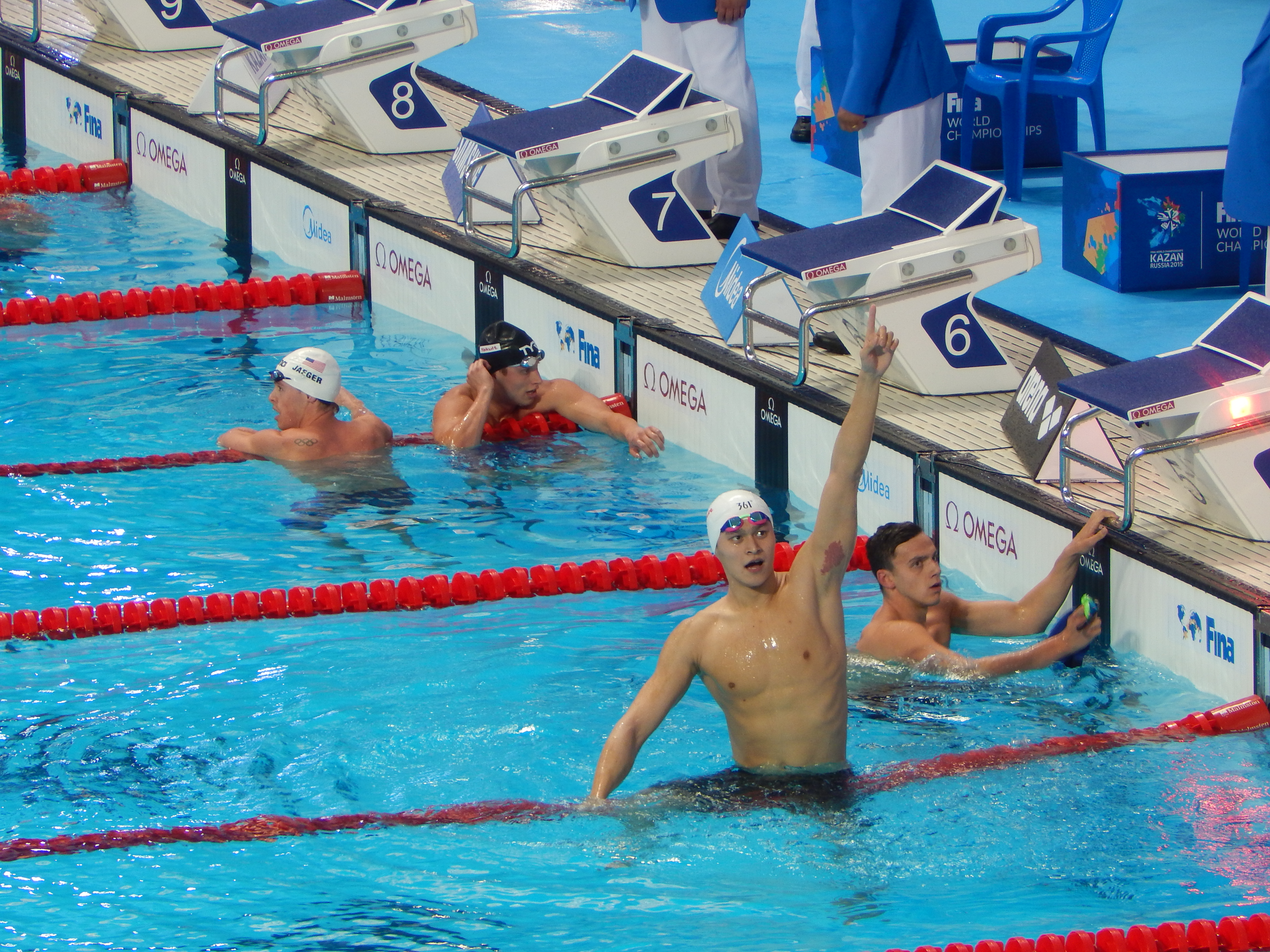 Sun Yang wins 400m freestyle at the 2015 Aquatics WC in Kazan